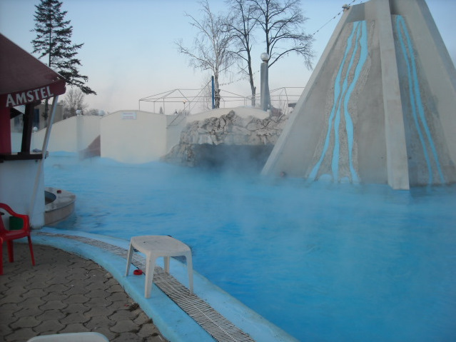 Korali Mineral Water SPA Complex in Pancharevo, Sofia